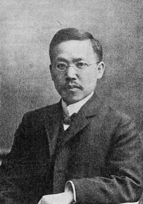 Mr. Kumaji Yoshida, professor of the Tokyo Women's Higher Normal School and the Faculty of Literature at Imperial University of Tokyo.